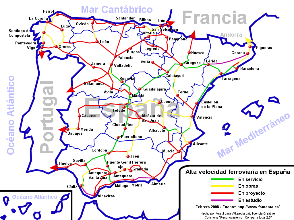 Map of the Spanish high-speed railway network. Some lines are in operation, some under construction, some are planned and some are in study (February 2008).